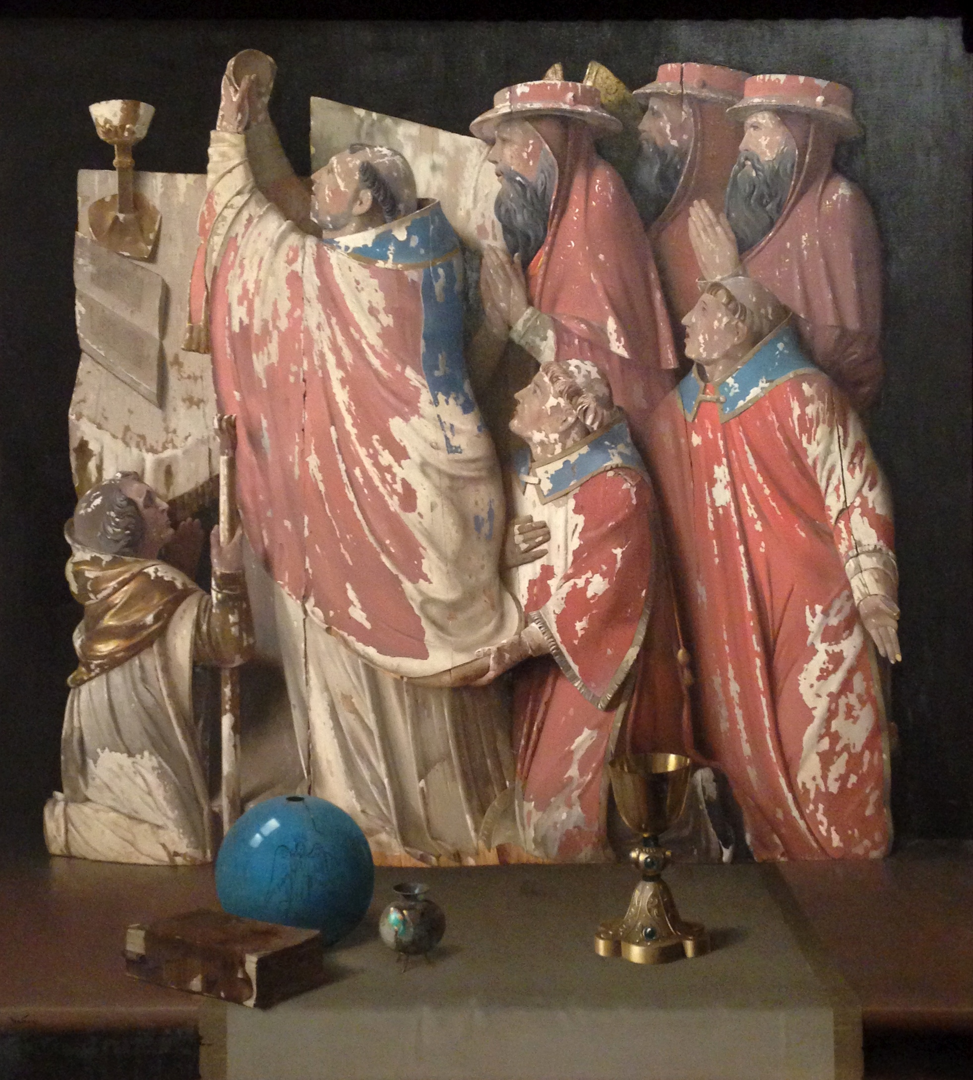 Harry Willson Watrous, Celebration of the Mass, c.1930-35, Metropolitan Museum of Art